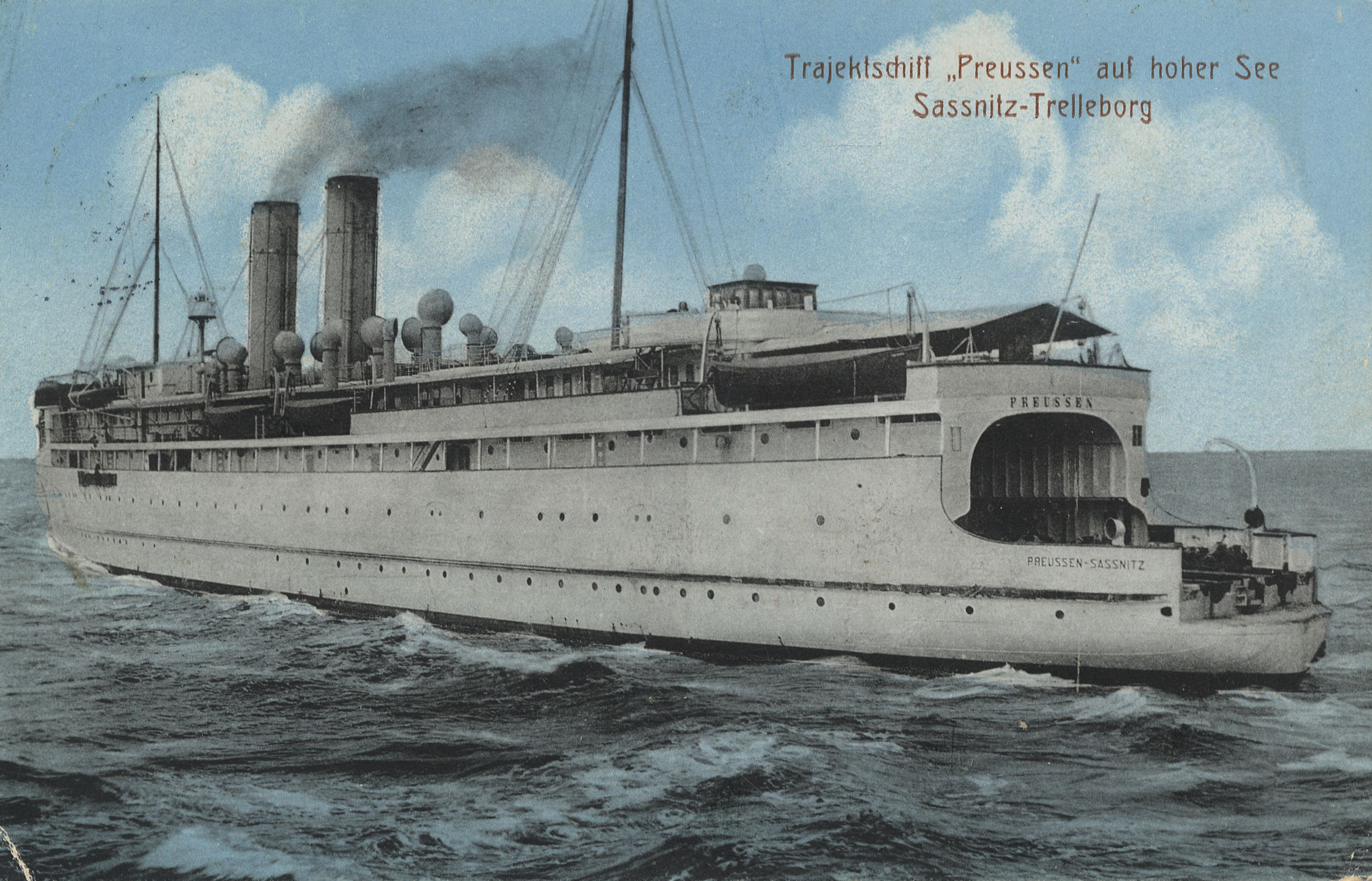 Ferry Preussen on the high seas Sassnitz – Trelleborg